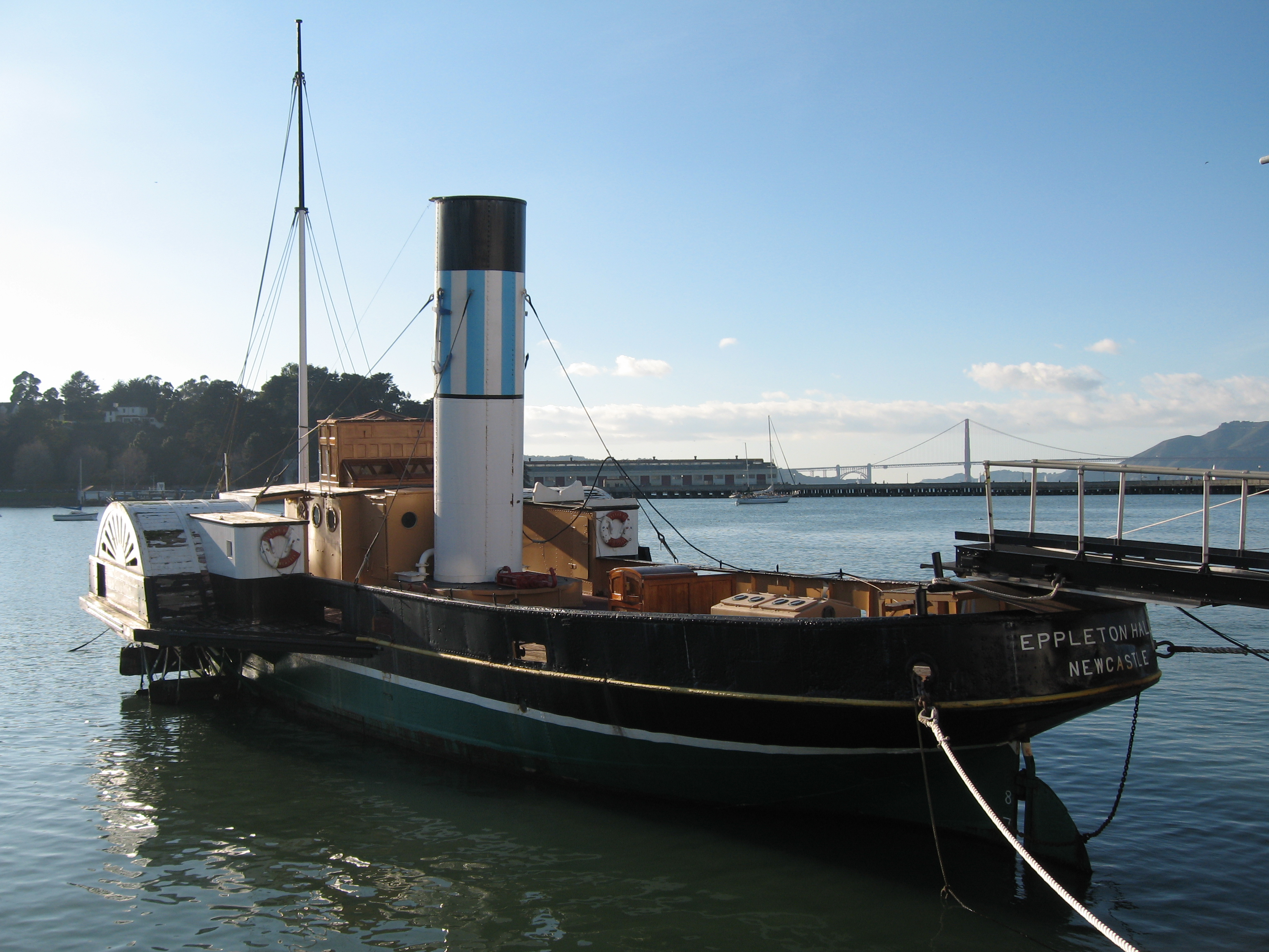 Eppleton Hall of Newcastle. Paddlewheel tugboat at the San Francisco Maritime National Historical Park.